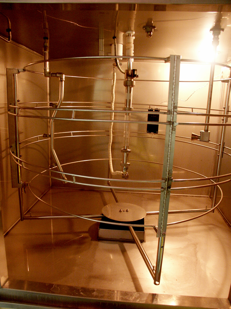 Weathering device "weather-ometer Ci65a", inside view with central light source (off), light rod, surface irrigation and specimen holder